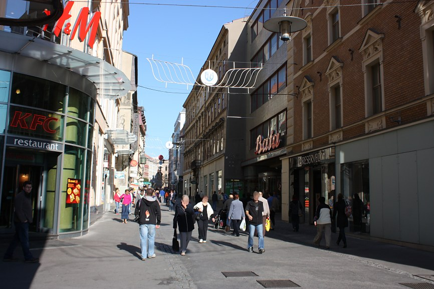 Brno, Česká street